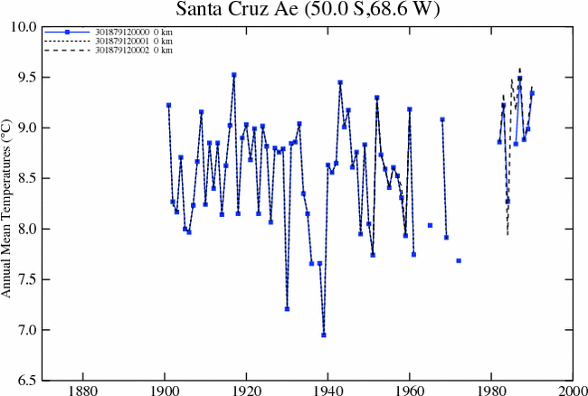 Graph of 1901-1990 air average temperature of Orcadas del Santa Cruz Airport, Argentina